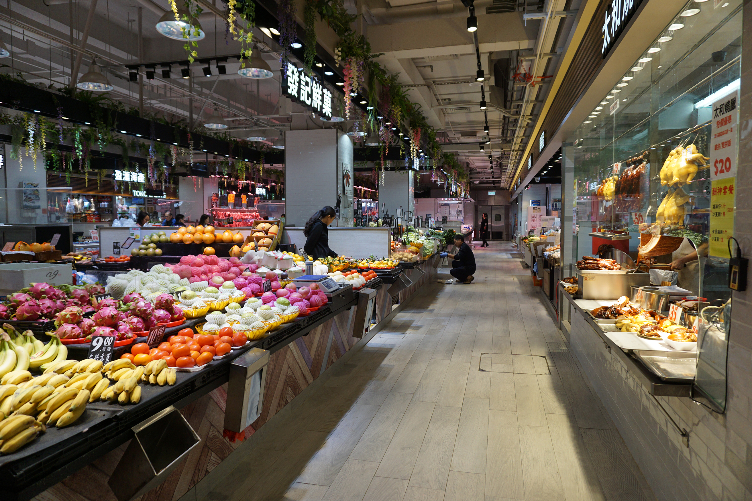 Tseung Kwan O Market in Po Lam, Hong Kong.